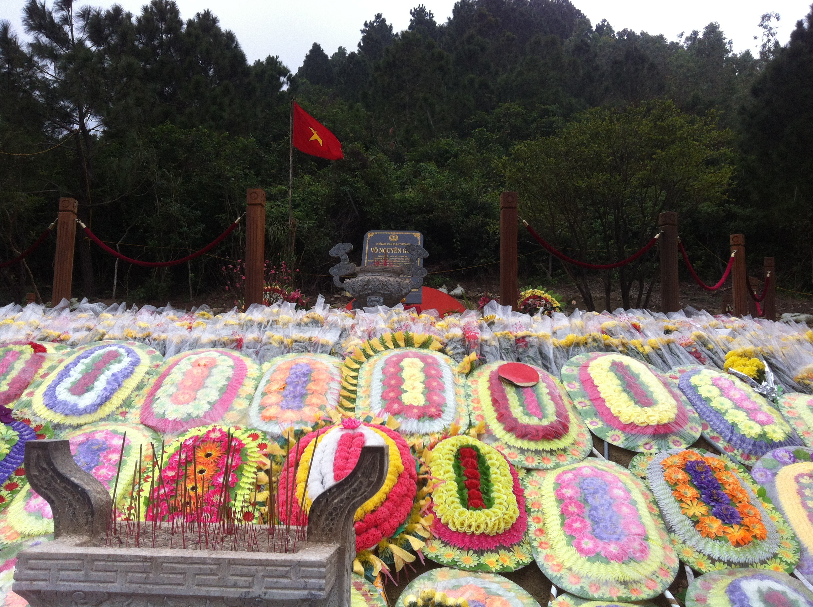 Tomb of General Vo Nguyen Giap in Quang Binh province, Vietnam